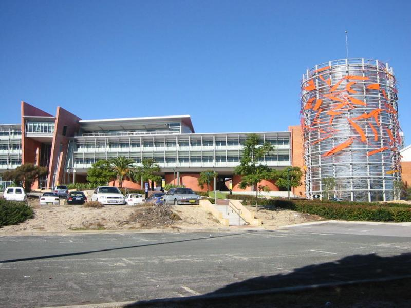 Curtin Building 408 (Business and Physiotherapy) shortly after its construction in 2006, looking south from the carpark - by CUT001